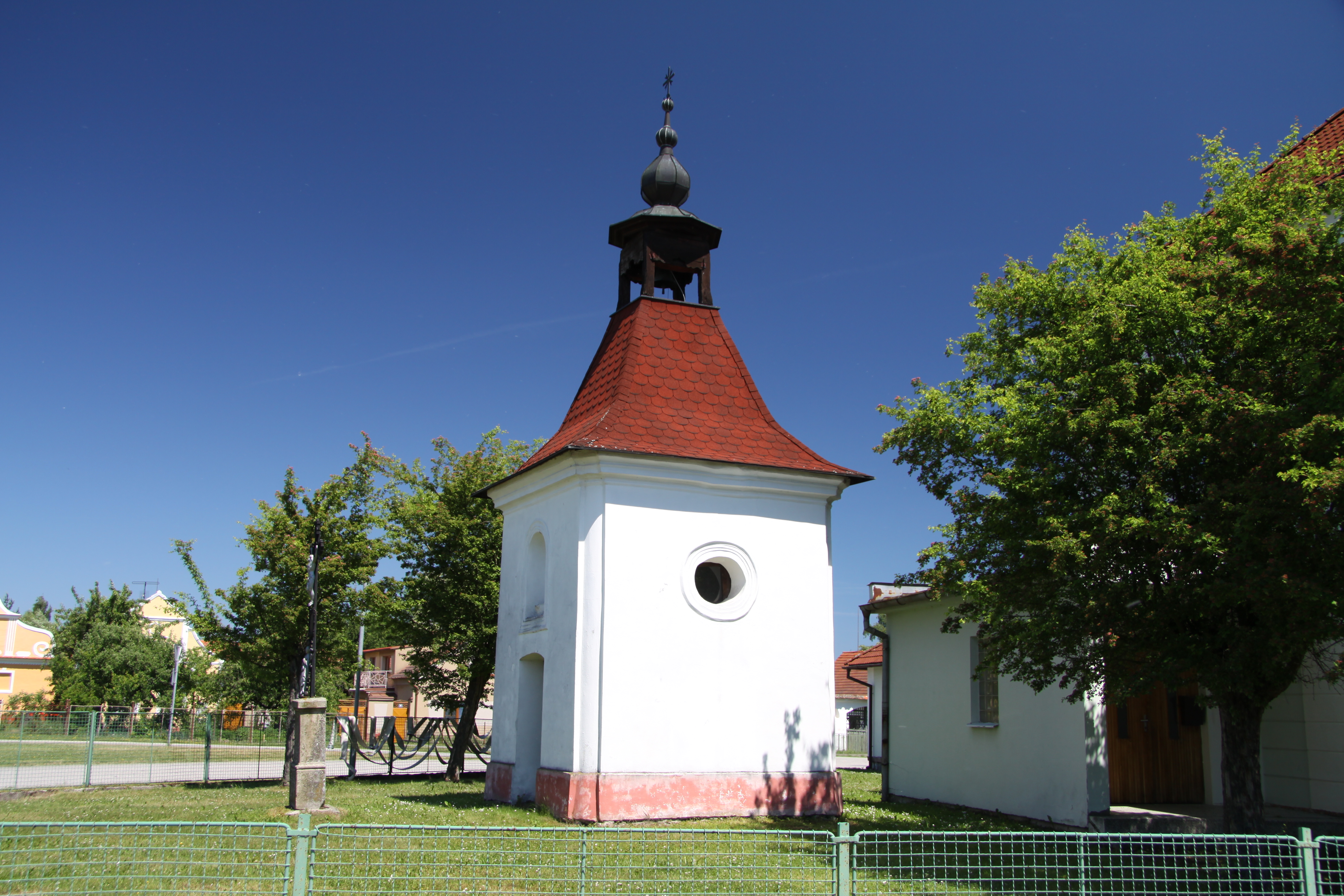 Chapel on Saint. Wenceslaw in Dynín village in České Budějovice District, Czech Republic